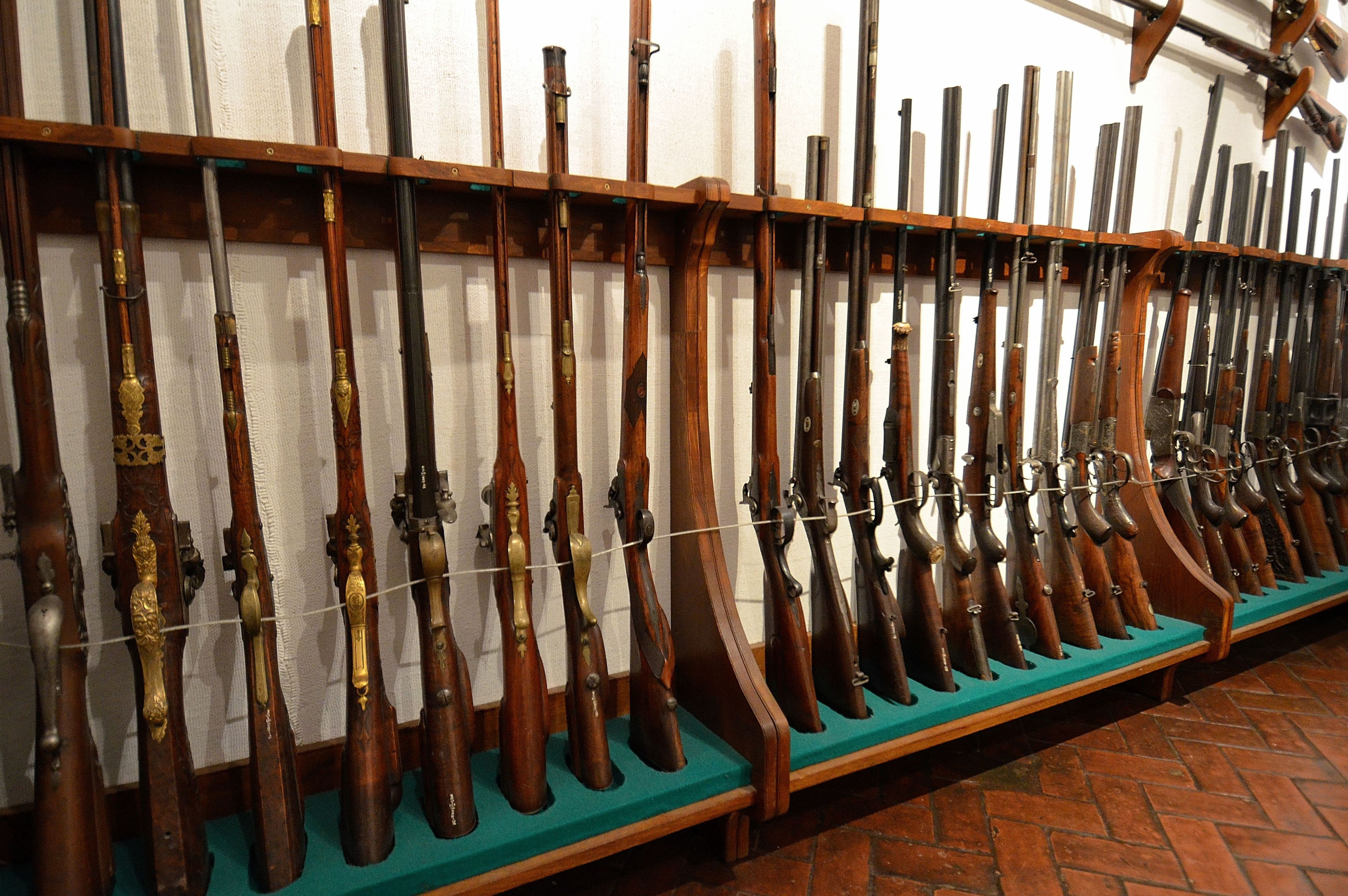 Hunting weapons in the Museum of Hunting and Horsemanship in Warsaw